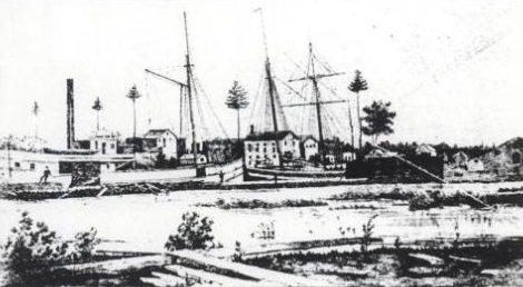 Lincoln settlement 1861 in Mason County, Michigan